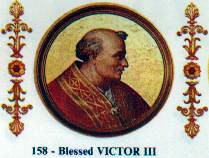 Portrait of Pope Victor III in the Basiica of saint Paul Outside the Walls, Rome